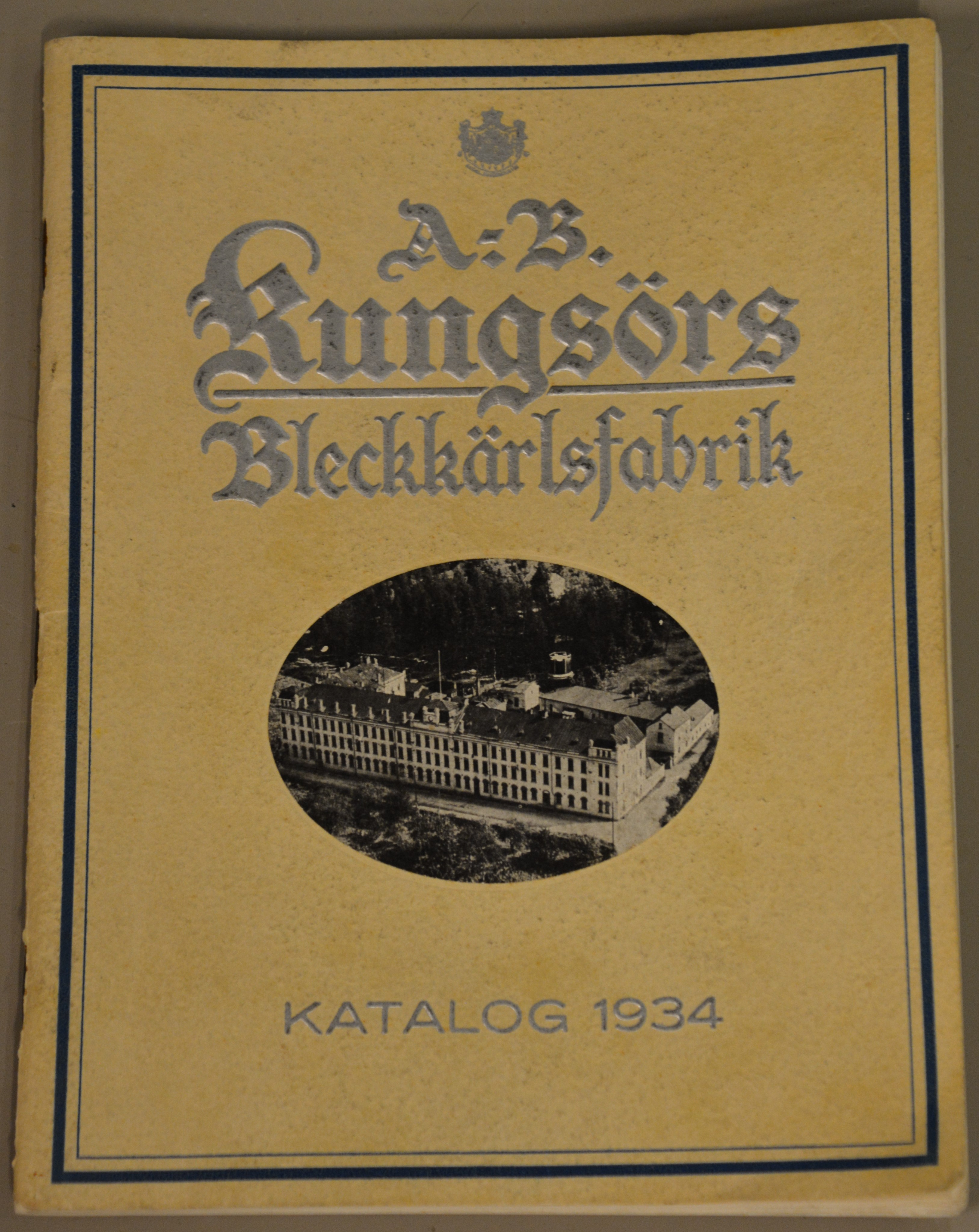 Kungsörs Bleckkärlsfabriks Catalogue 1934